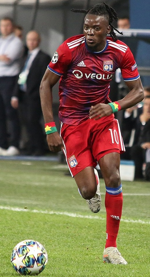 Bertrand Traoré with Lyon in a Champions League game against FC Zenit Saint Petersburg.